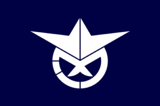 Flag of Ibaraki Ibaraki